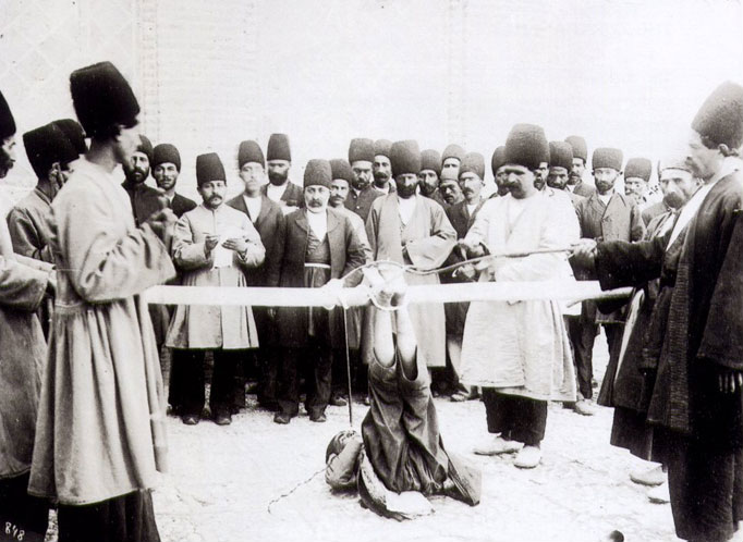 Falak Whipping the soles of a criminal. One of Antoin Sevruguin's historical Iran photographs.